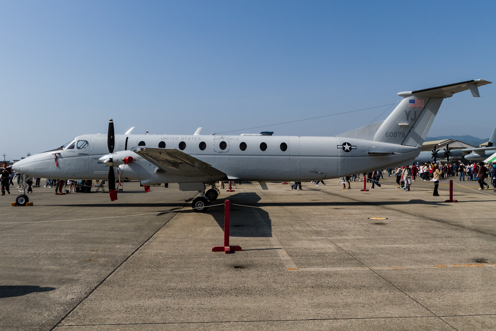 Aircraft: Beechcraft C-12J(sn: 86-0078) Squadron: 459AS / 374AW Base: USAF Yokota AB(RJTY) Tokyo, Japan 05/05/2012 MCAS Iwakuni, Japan